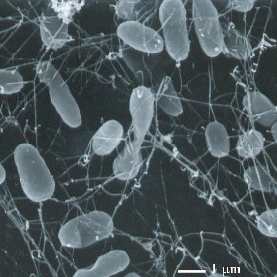 Thermophile bacteria isolated from deep-sea vent fluids. This organism eats sulfur and hydrogen and fixes its own carbon from carbon dioxide. Scanning electron micrograph.